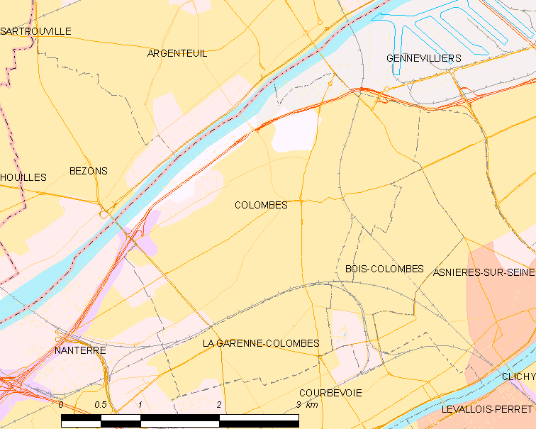 Map of French municipality Colombes